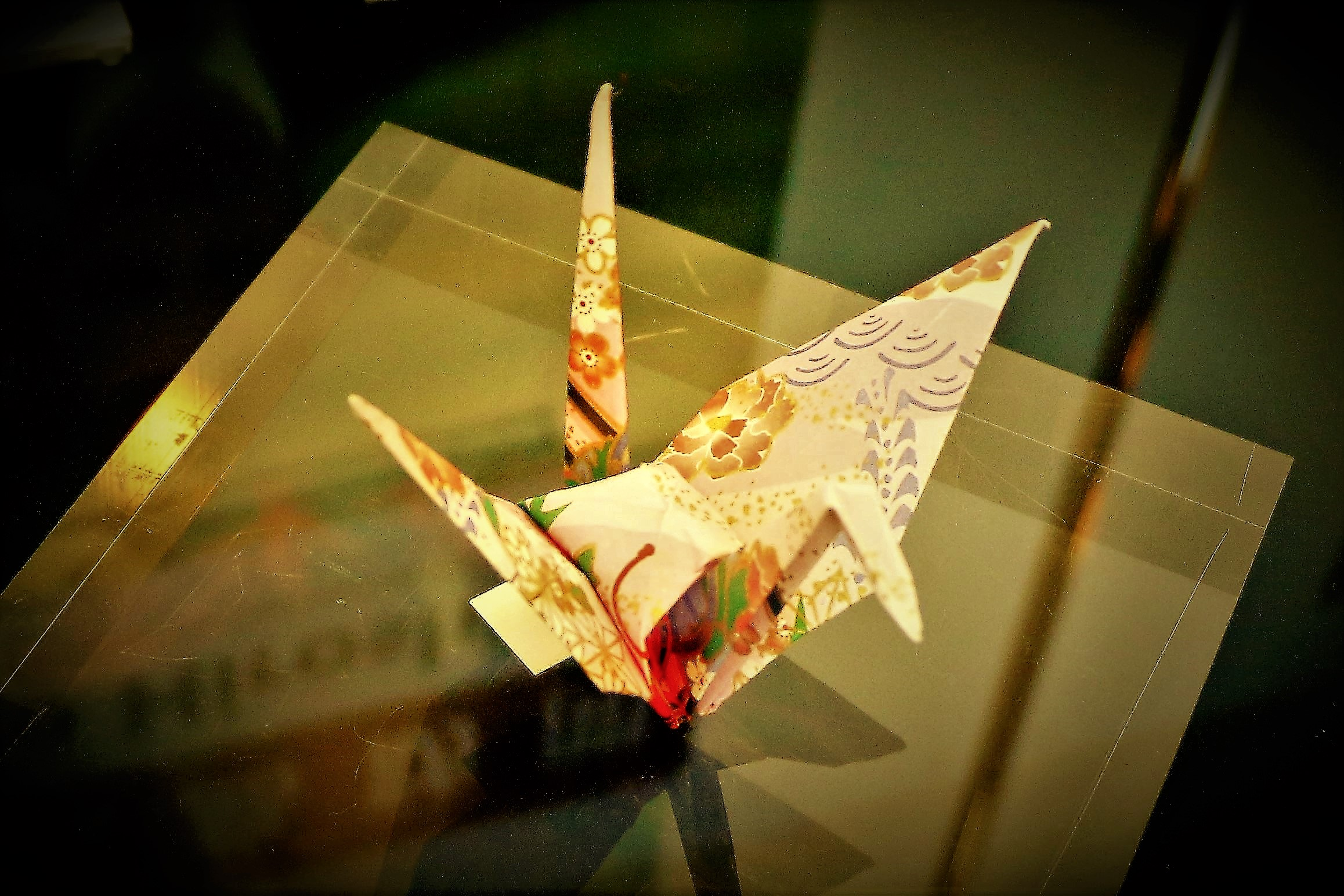 Barack Obama folded paper crane. Hiroshima Peace Memorial Museum.Exhibits can take pictures if the electric flash unit is not used.